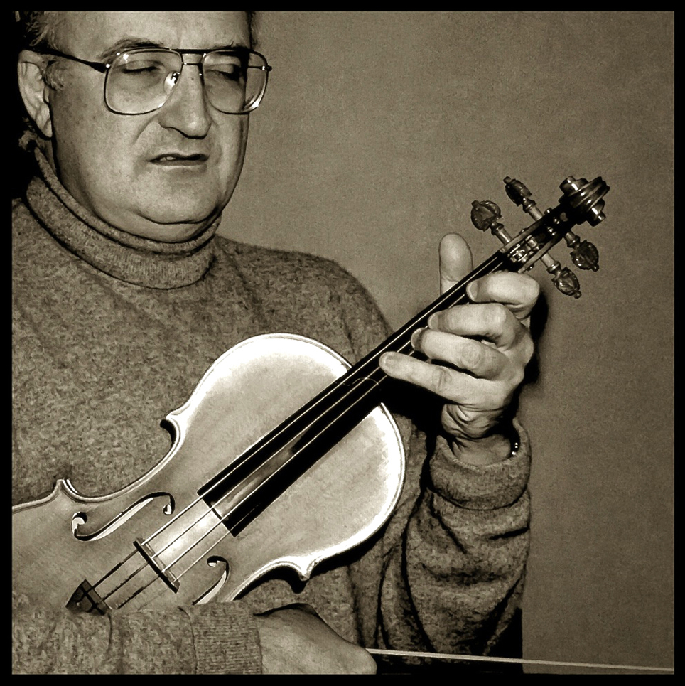 Portrait of Salvatore Accardo - Augusto De Luca photographer